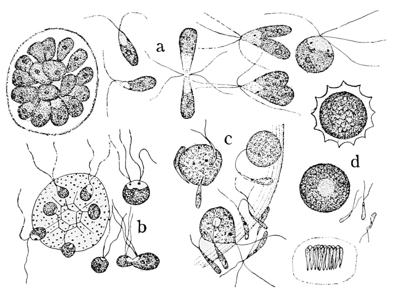 Gametes and gametangia of the volvocaceae